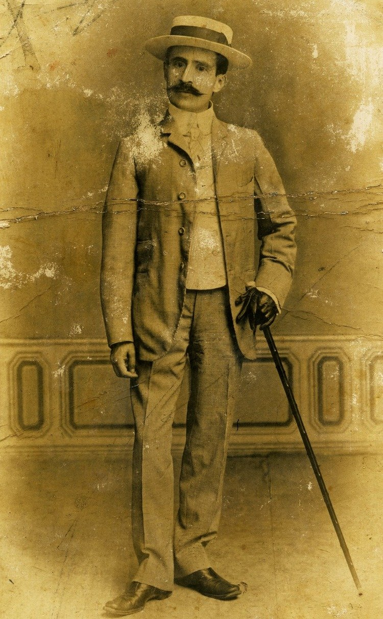 Manuel J. Calle